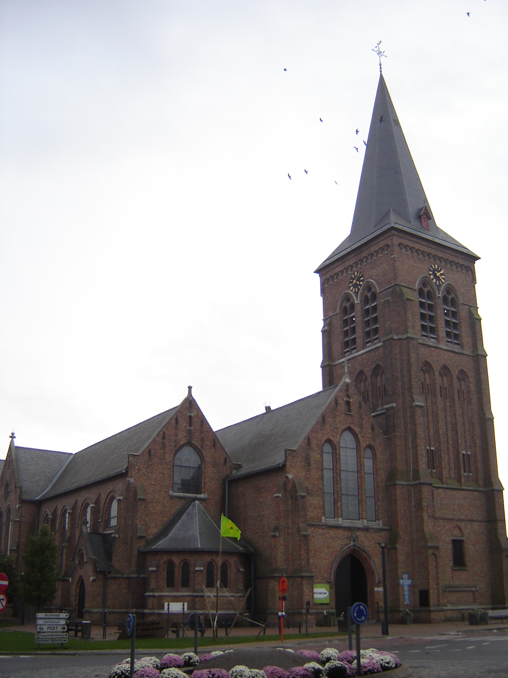 Church of Saint Bartholomew in Kortemark. Kortemark, West Flanders, Belgium